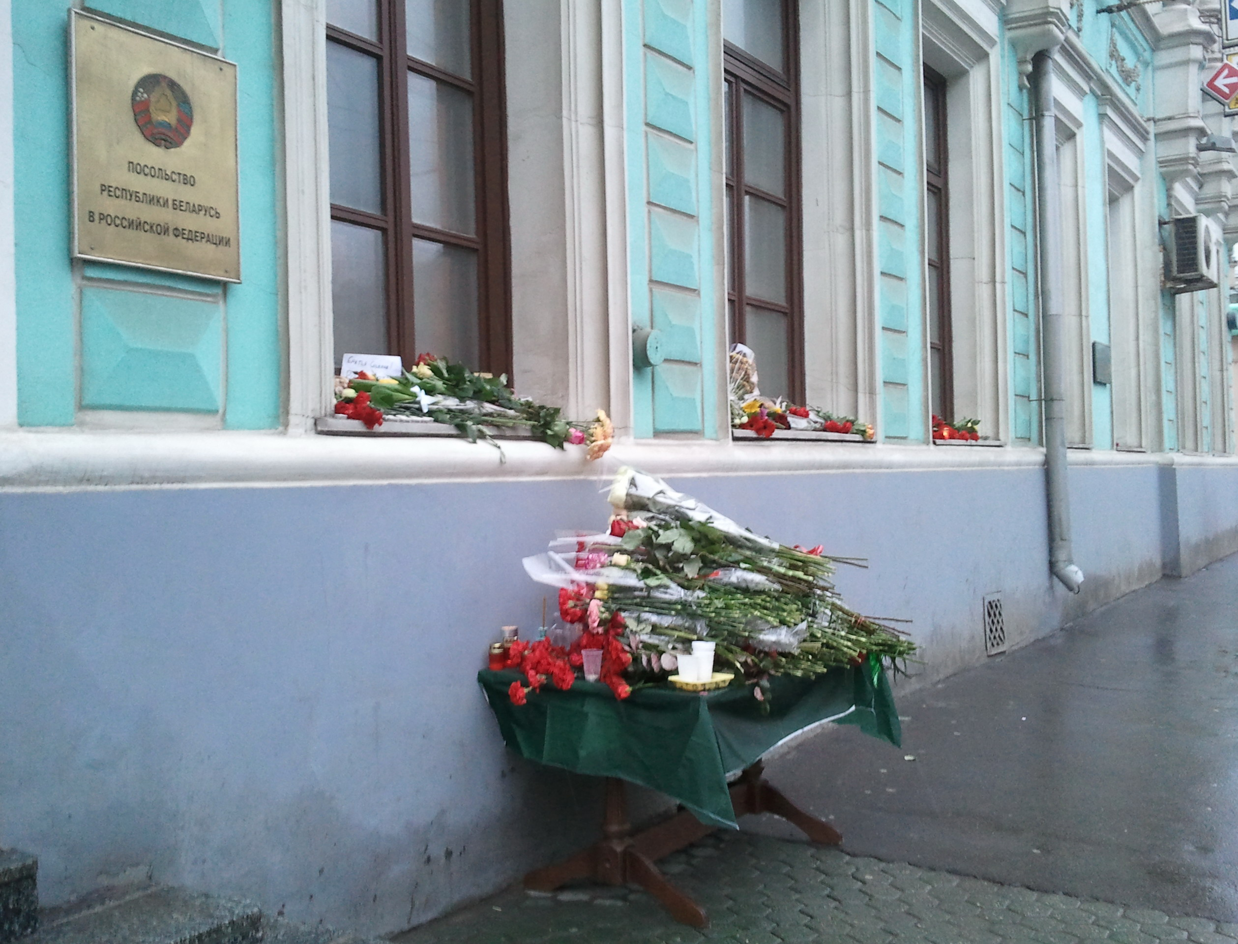 Flowers near the Belarusian Embassy, Moscow